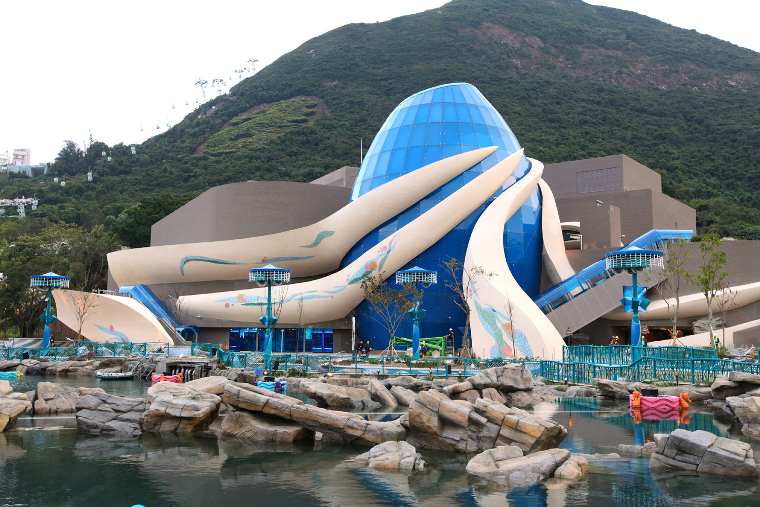 Aqua City in Ocean Park